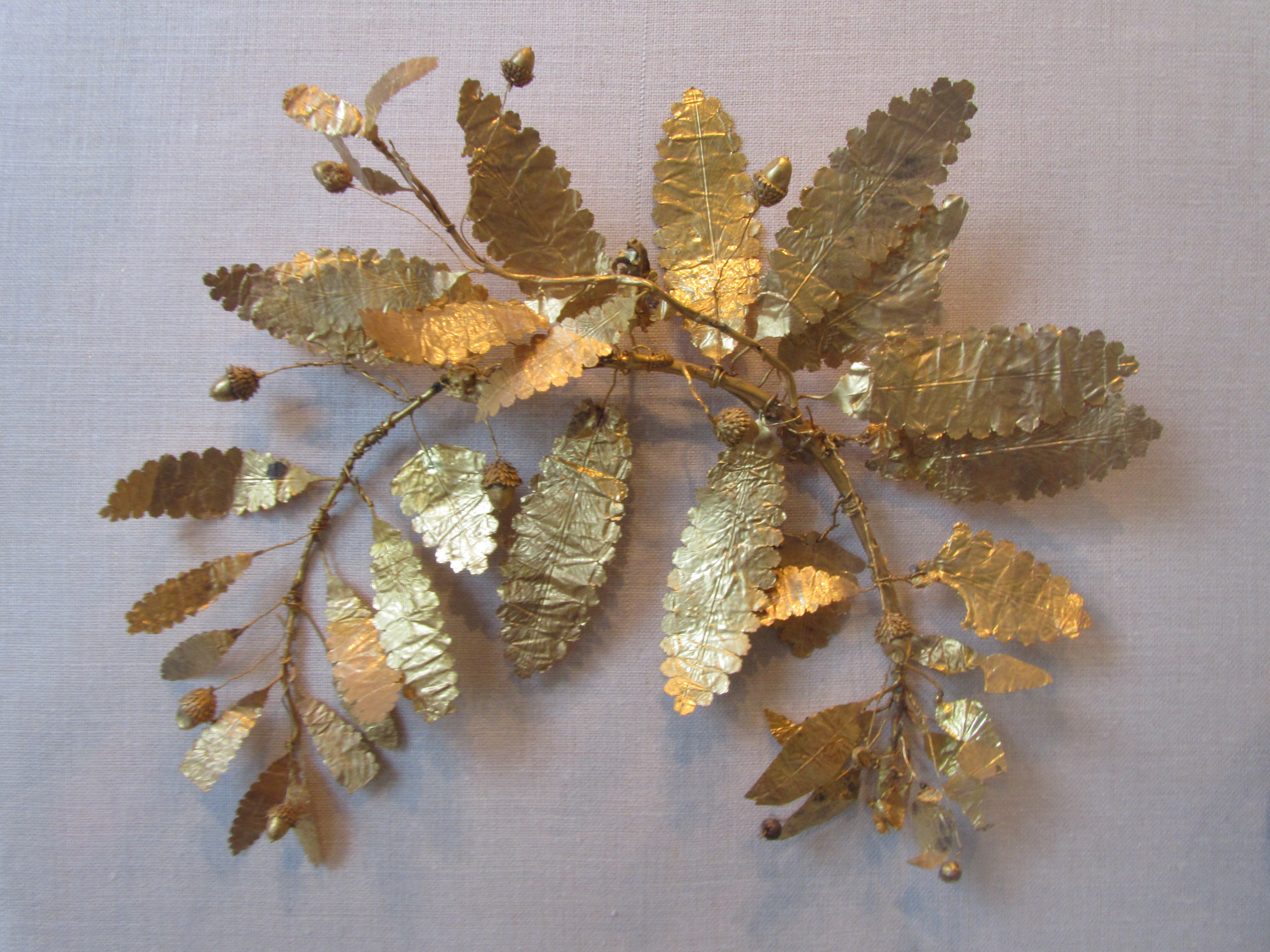 Fragment of a gold wreath Greek, ca. 320-300 BC From a tomb at Zaneskaya Gora in the region of the Crimea on the northern shore of the Black Sea